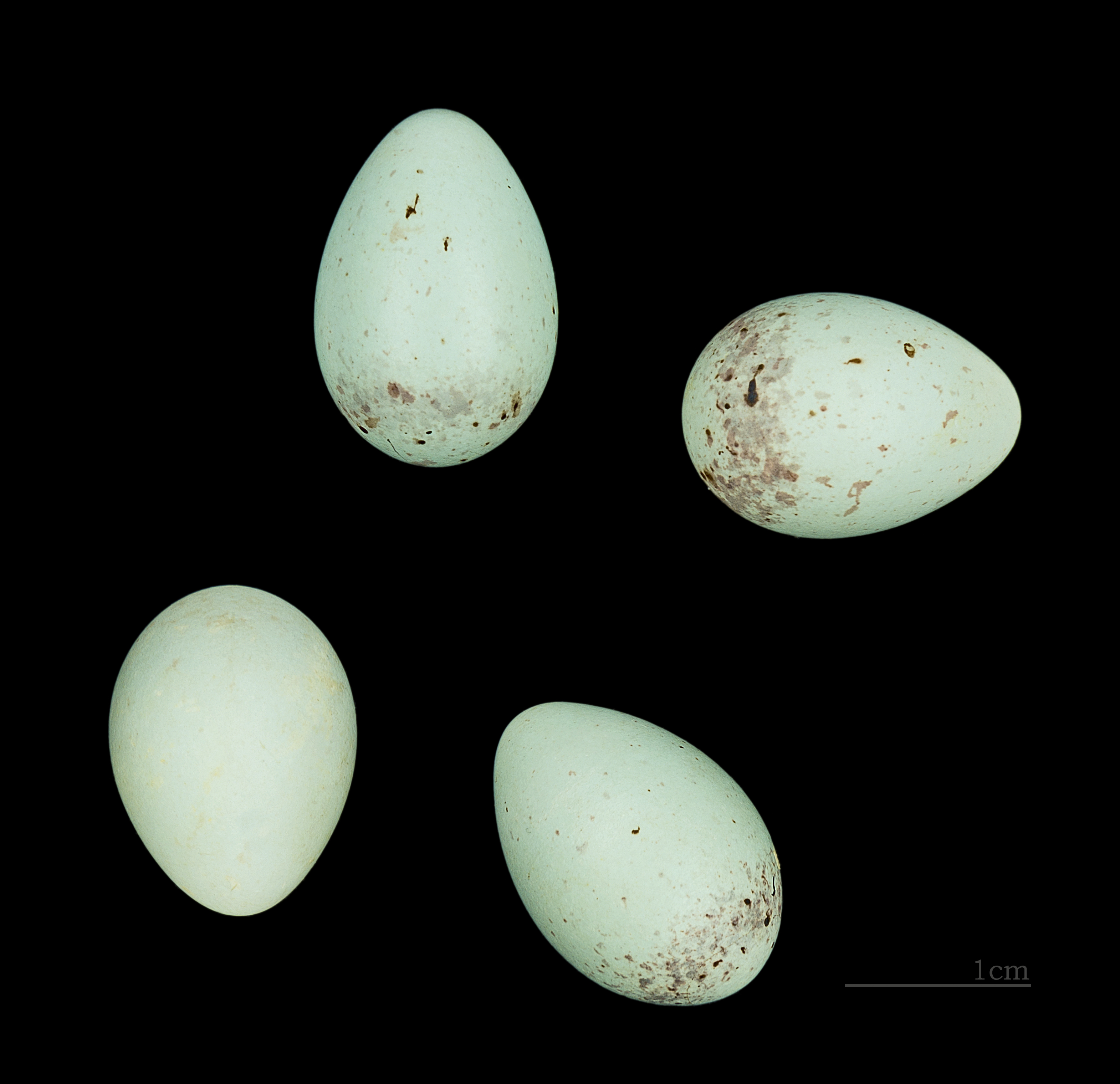 Egg of Coues's Arctic Redpoll. Collection of Perrin de Brichambaut.